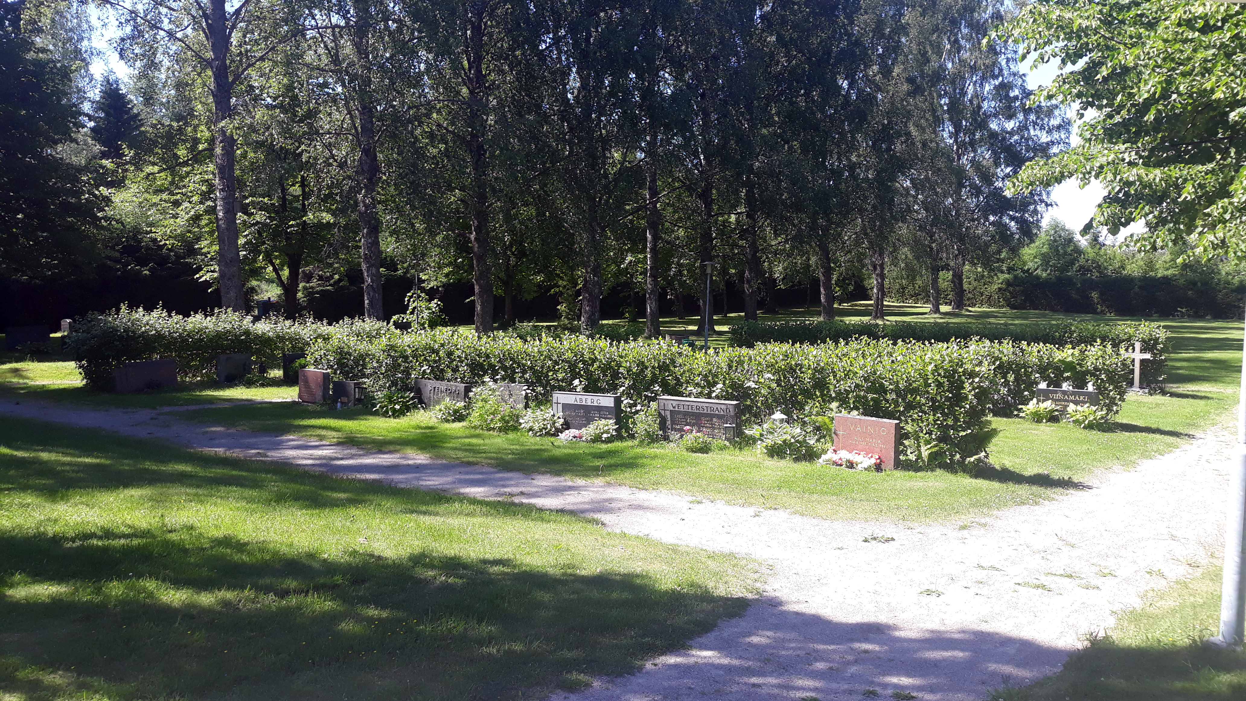 Kytäjä cemetery, located next to Kytäjä church in Hyvinkää.